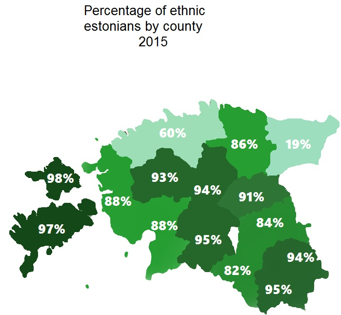 percentage of ethnic estonians by county